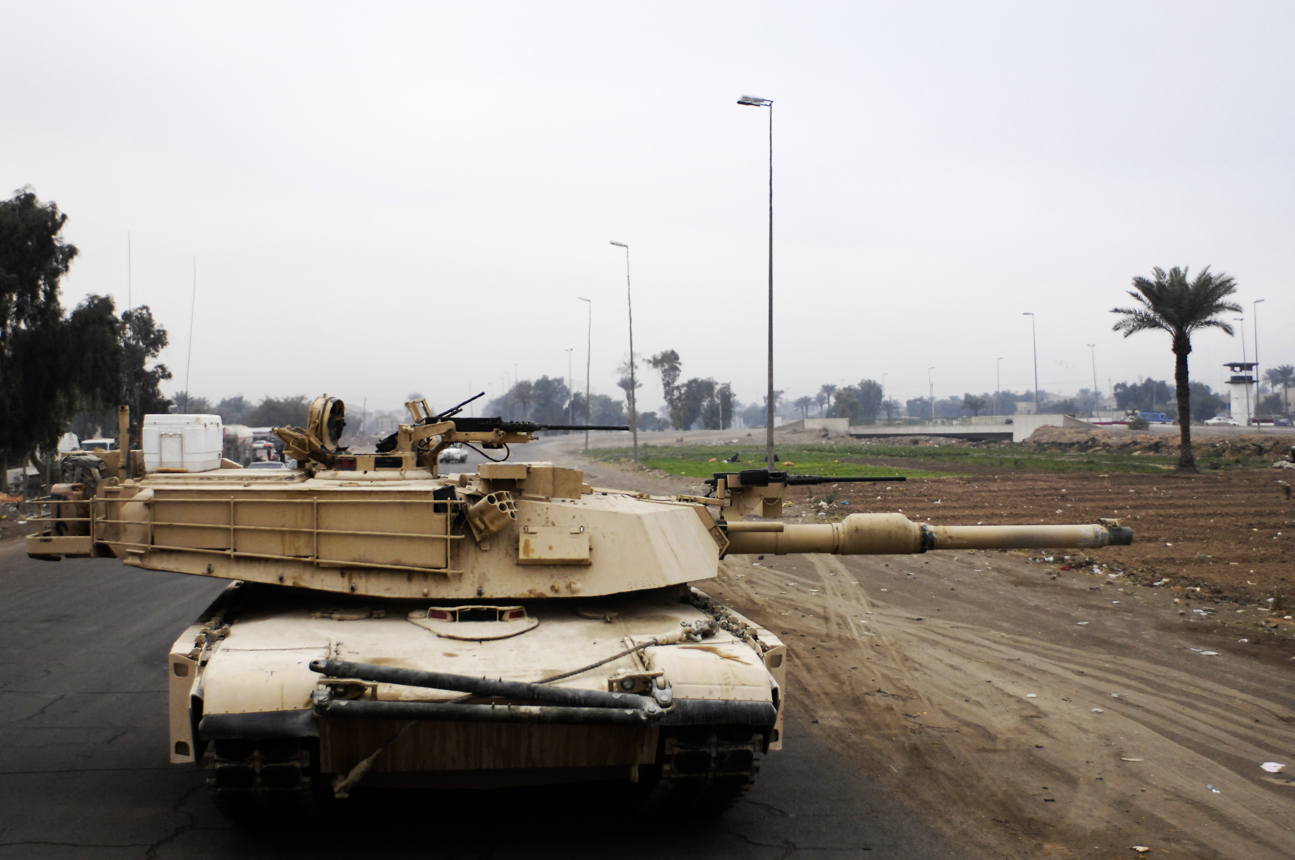 U.S. Army soldiers assigned to 1st Platoon, Delta Company, 2nd Combined Arms Battalion, 69th Armor Regiment, Ft. Benning, Georgia, patrol Main Supply Routes Pluto and Brewers, near Forward Operating Base Rustamiyah, Baghdad, Al Jadidah, Dec. 7, 2007, in M1A1 Heavy tanks with Abrams Integrated Management System and the new Tank Urban Survivability Kit. (U.S. Air Force photo/Staff Sergeant Jason T. Bailey)